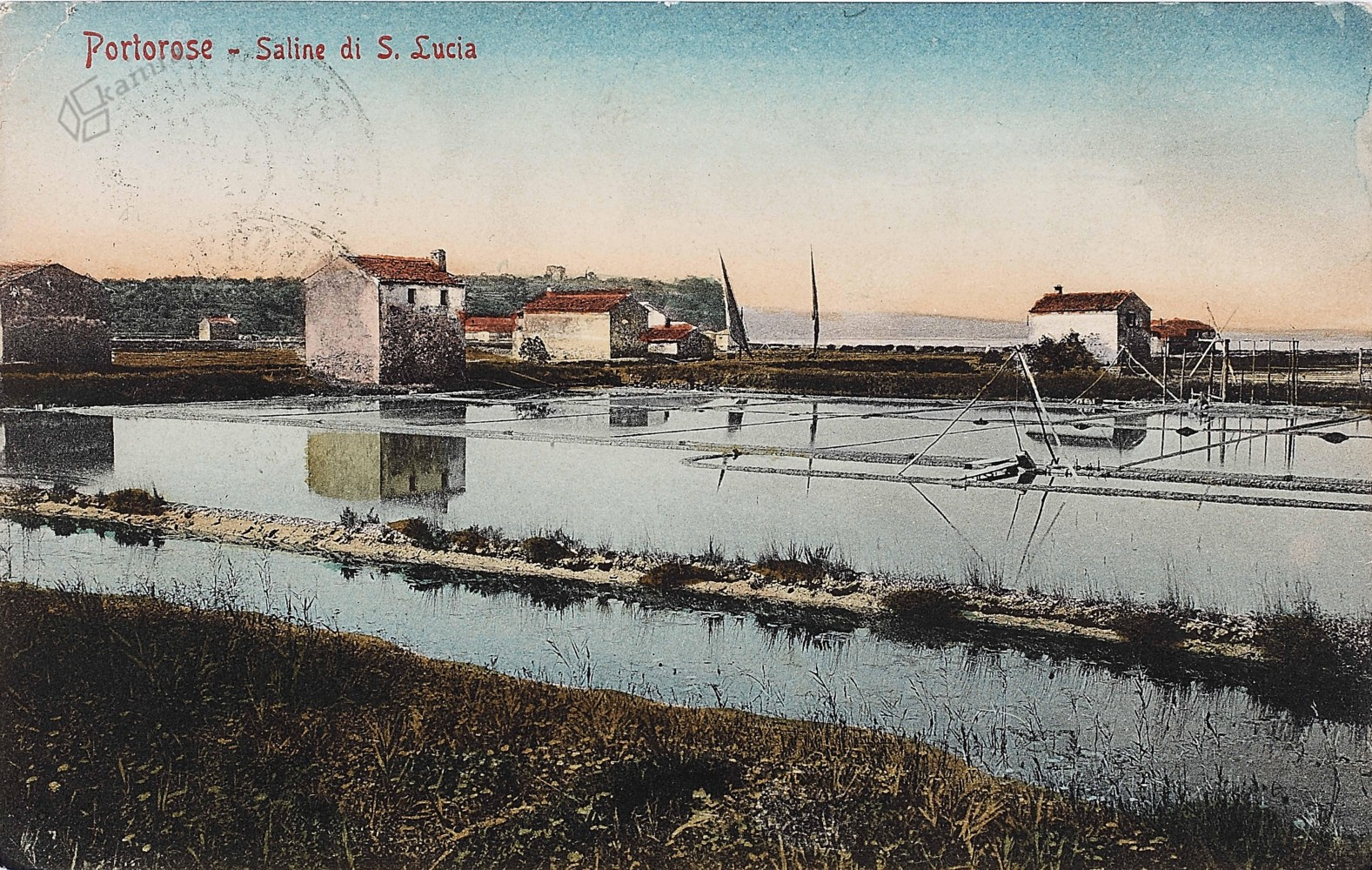 Postcard of Lucia (Lucia, Piran) Salina.